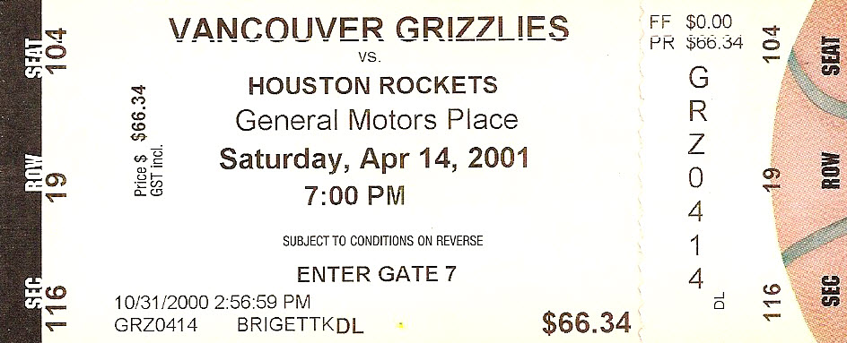 A ticket for a April 14, 2001 National Basketball Association game featuring the Houston Rockets versus the Memphis Grizzlies at the General Motors Place. This would be the Grizzlies' final home game in Vancouver before relocating to Memphis.